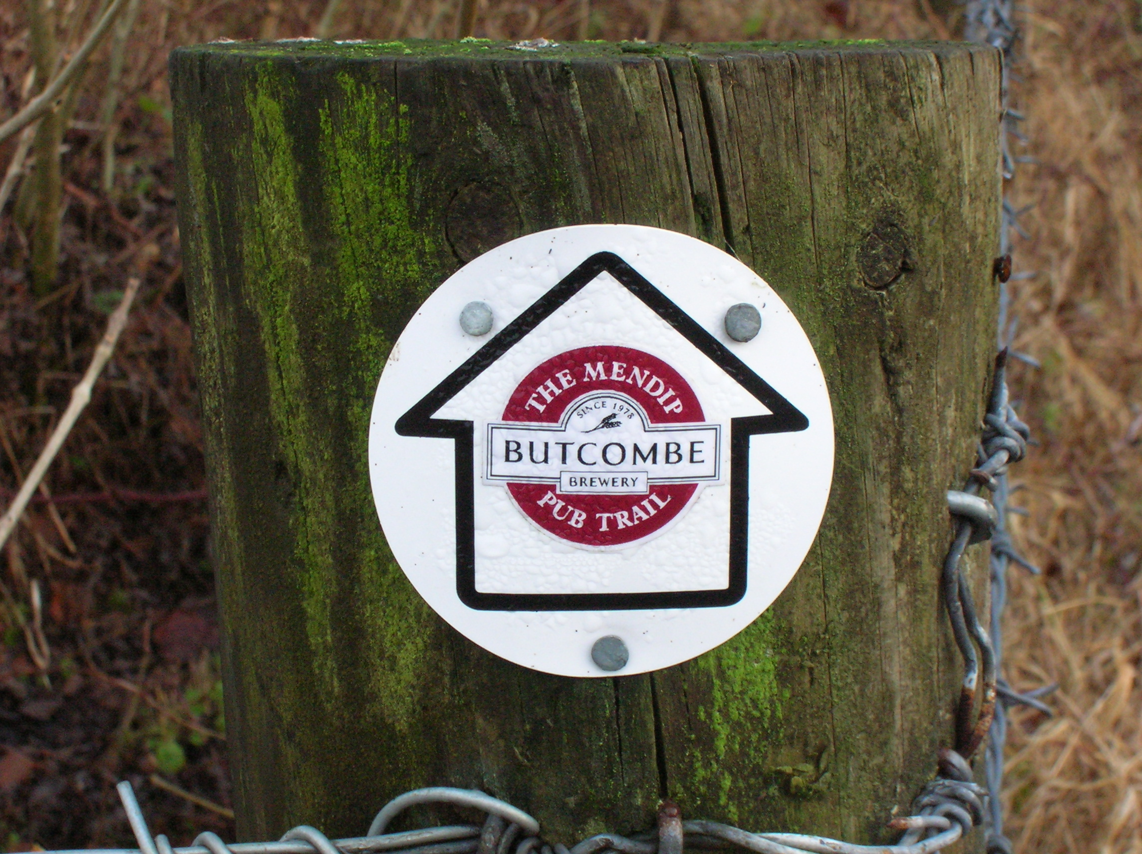 The Mendip Pub Trail is a 47 mile circuit in the Mendip Hills, Somerset, that runs between six Butcombe Brewery pubs: Ring 'O Bells - Hinton Blewitt Queen Victoria - Priddy The Lamb - Axbridge Queens Arms - Bleadon The Swan - Rowberrow Ring O' Bells - Compton Martin